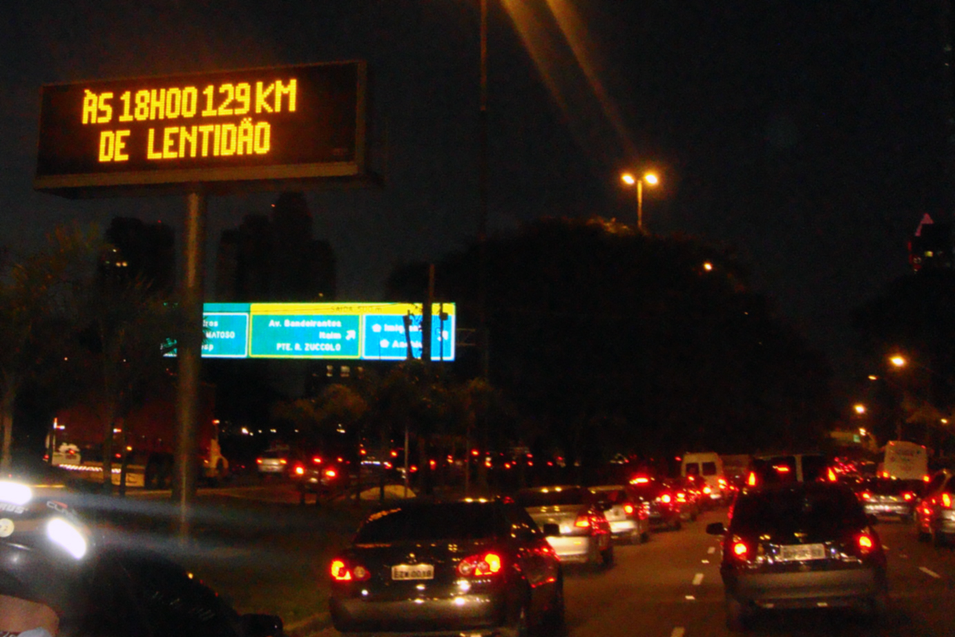 Typical traffic jam at marginal Pinheiros, Sao Paulo city, Brazil. The variable message sign informs drivers that queues have reached 129 Km (79 mi) at 6 pm. This is close to the average for the evening rush hour.